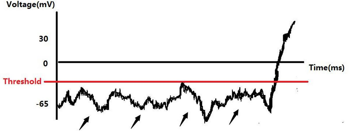 This is an illustration for the term Subthreshold Membrane Potential Oscillations.